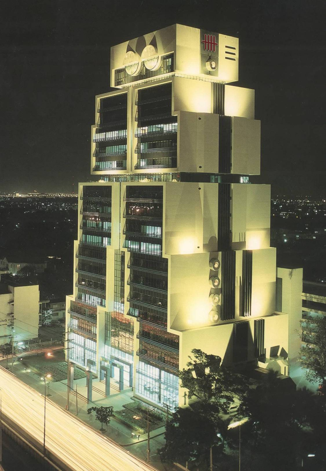 Robot building